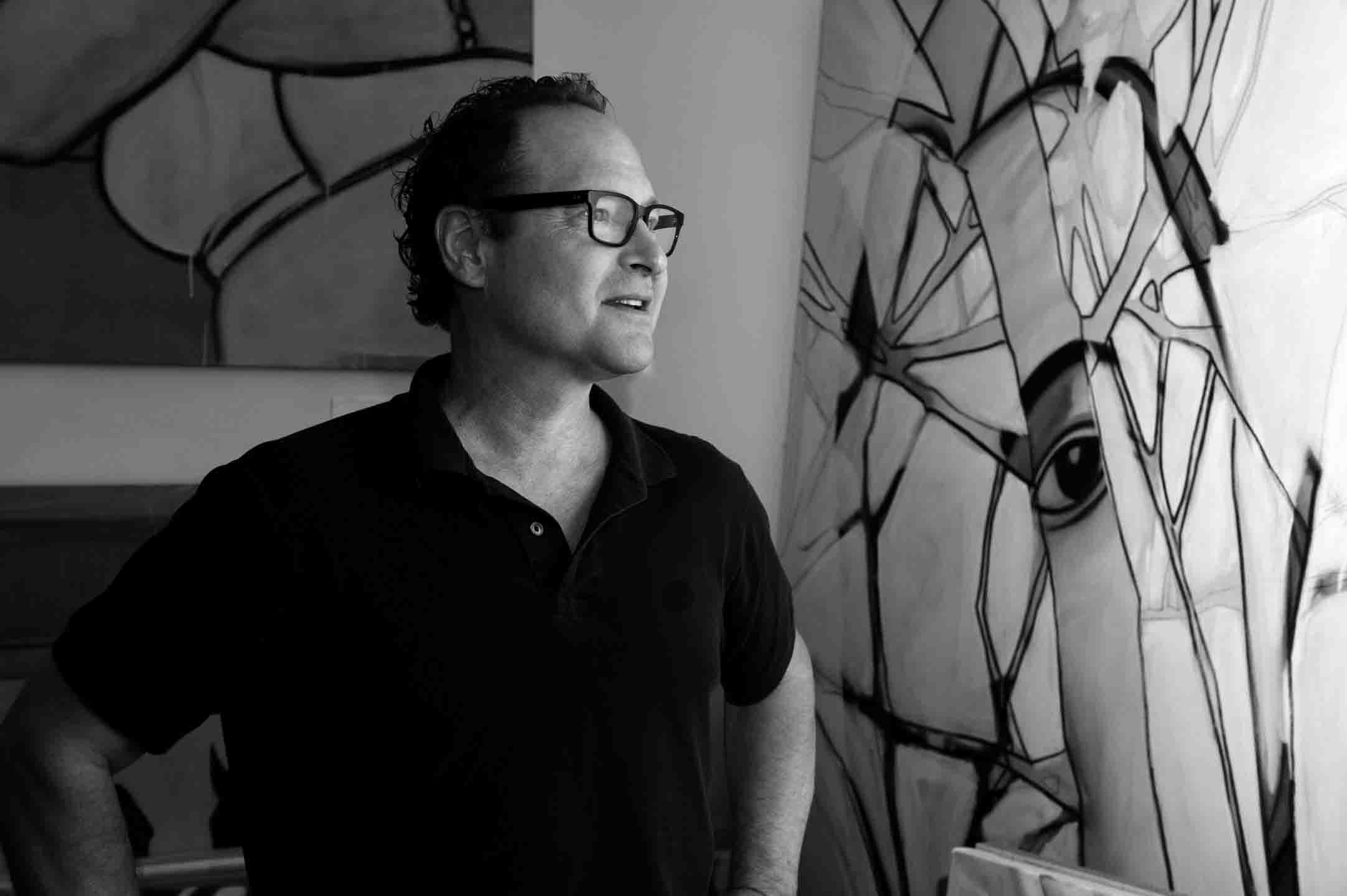 American artist Jeff Schneider in his studio, Long Island City, New York